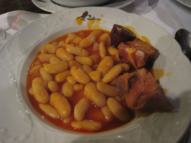 Asturian fabada,a typical dish from Asturies, Spain